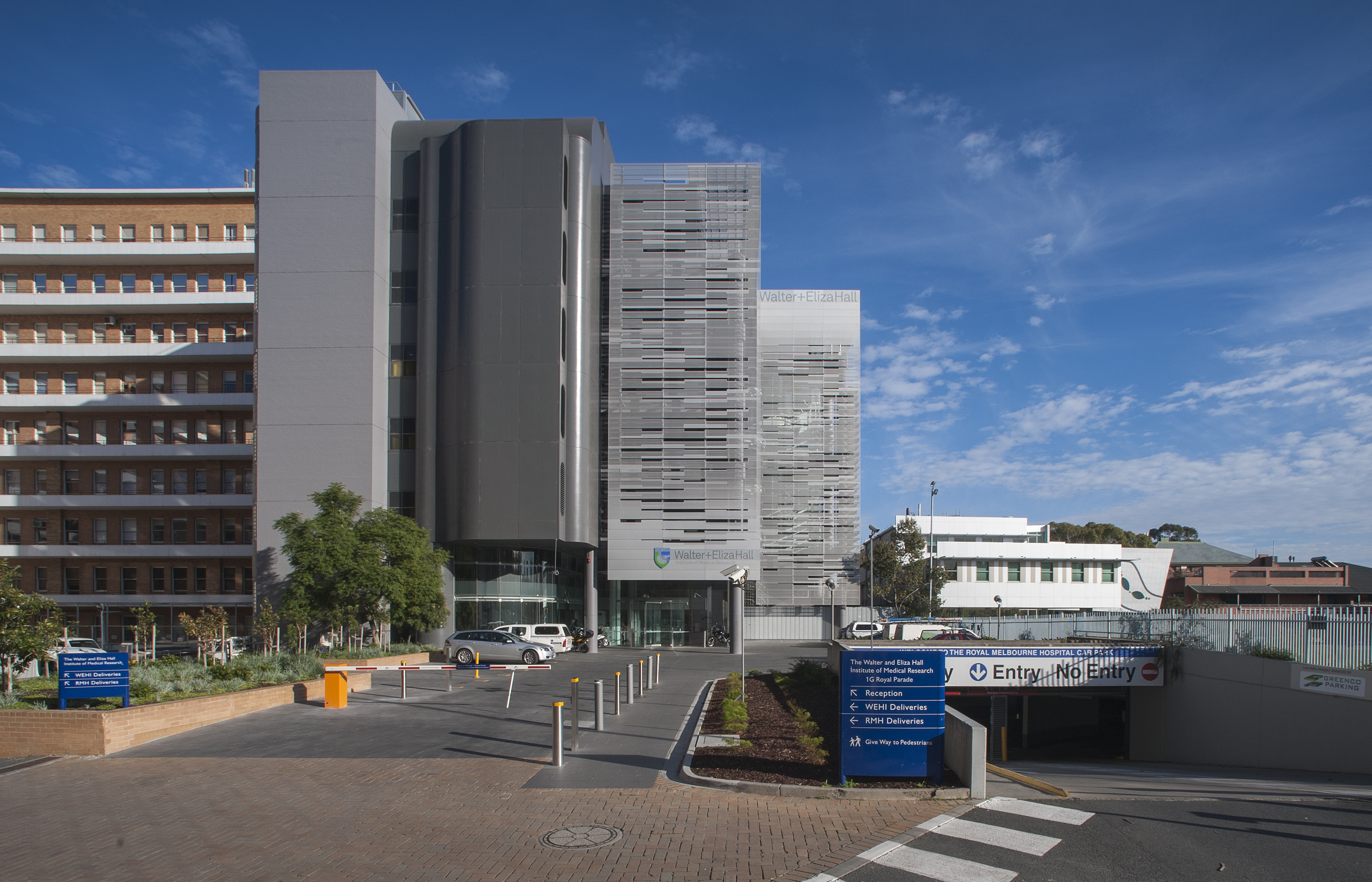 External view of the Walter and Eliza Hall Institute's Parkville campus, as seen from Royal Parade